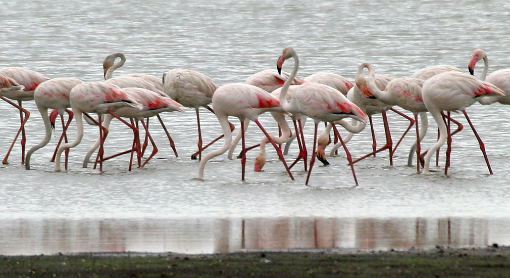 Greater Flamingo Phoenicopterus roseus - Sind: Lakka, Lakke jani, Hindi: Bog/Raaj hans, Sans: Bruhat balak, Bagg, Valiya rajahamsam, Bi: Charaj baggo, Ben: Kanmunthi, Kanthuti, Guj: Balo, Hunj, Moto hanj, Kutch: Hanj pakkhi, Mar: Rohit, Gnipankh, Pandav, Ta: Poonarai, Kizhi mooku naarai, Te: Pu konga, Samudrapu chiluka, Raja hamsa, Mal: Valiya poonara, Sinh: Siyak karaya- at Pocharam lake, Andhra Pradesh, India.